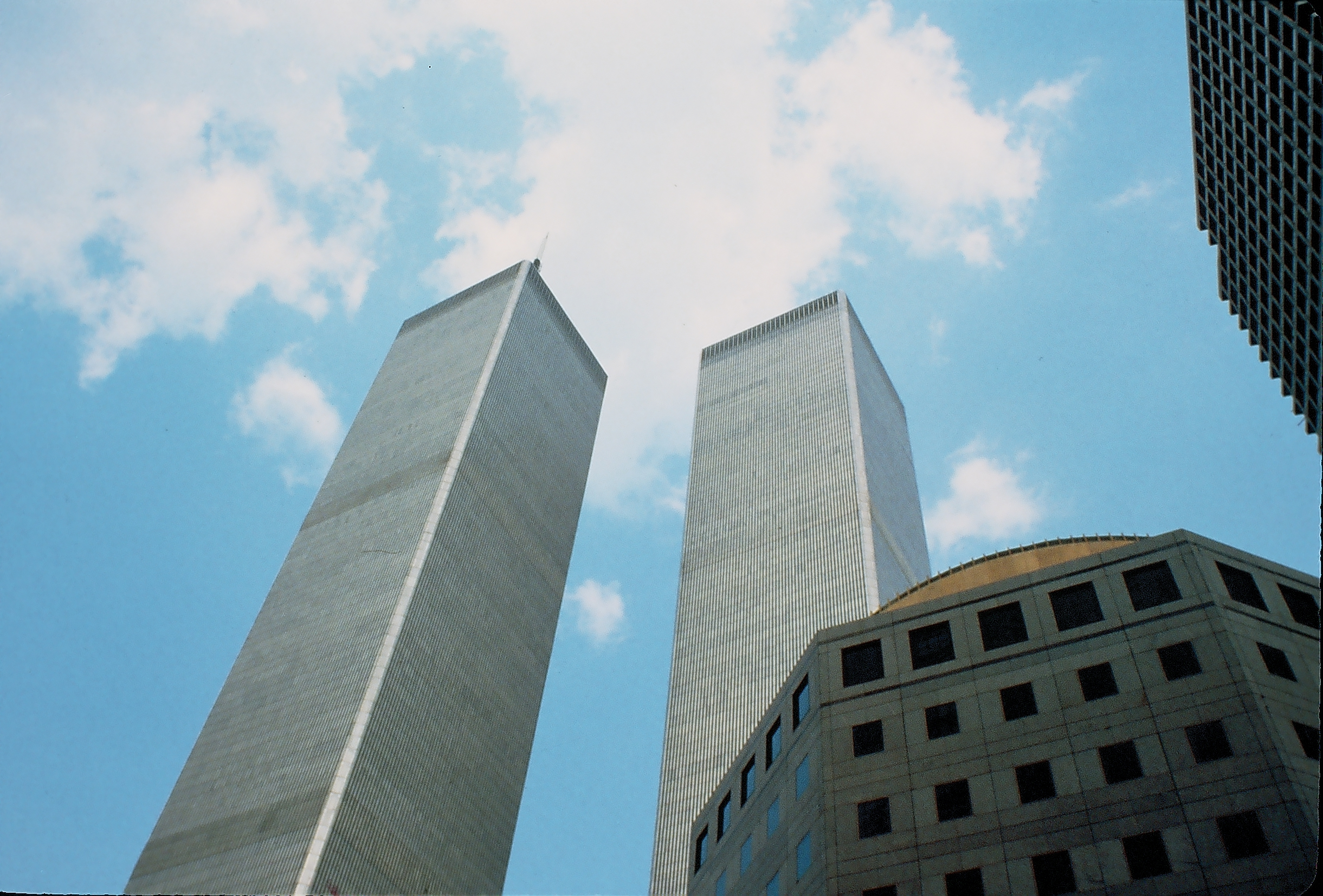 World Trade Centre, Twin Towers, New York, USA.